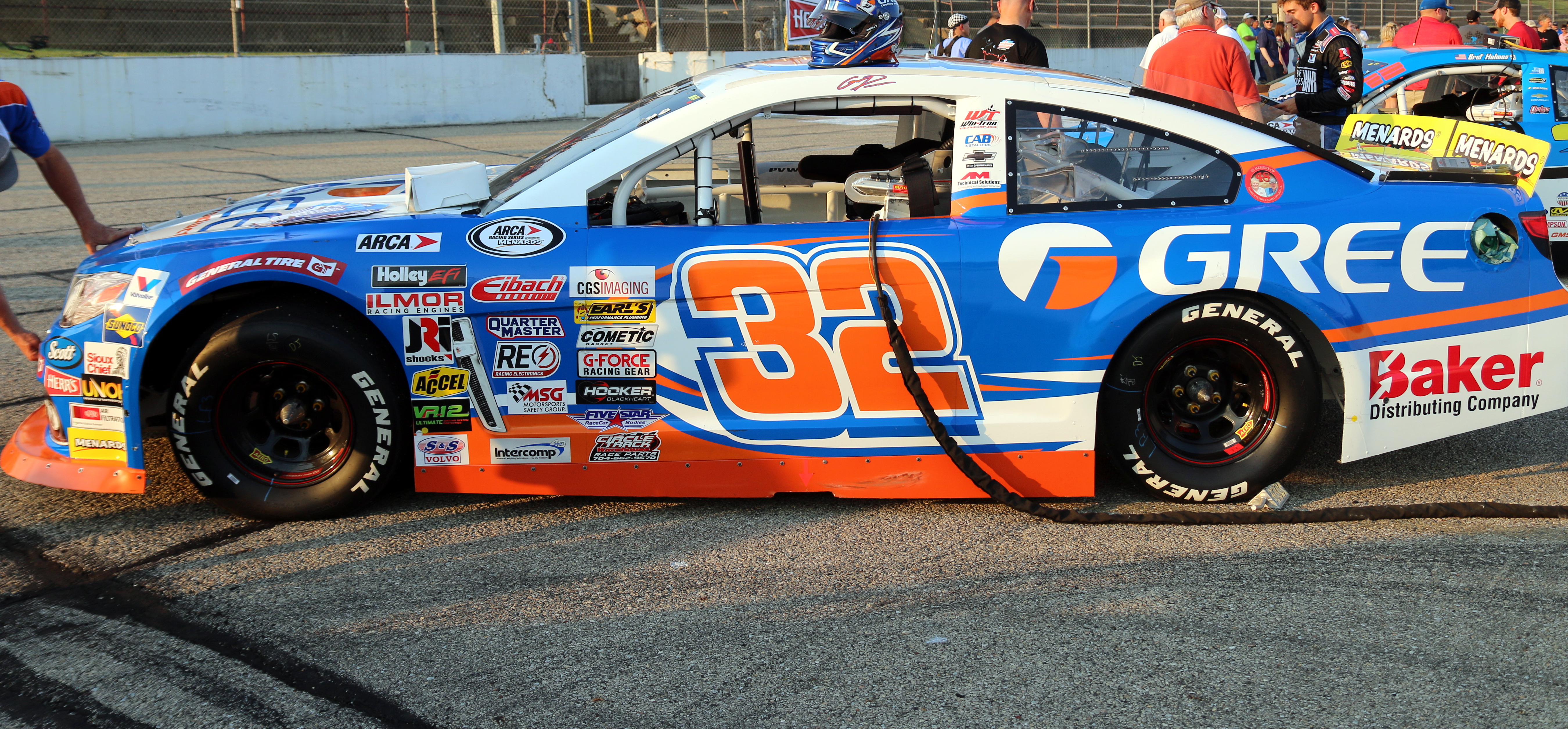 The #32 car of Gus Dean on display at the 2018 ARCA race at Madison International Speedway.